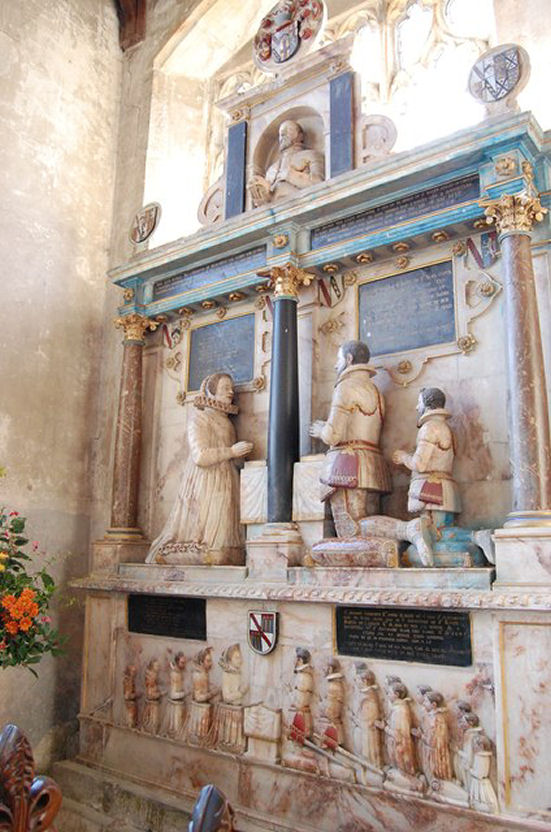 Tomb of 'Young' Sir Alexander Culpepper (died 1599) in St. Mary's Church in Goudhurst in Kent